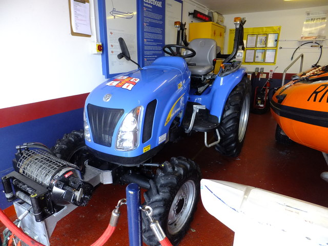 A New Holland Compact Launch tractor for the RNLI at Conway